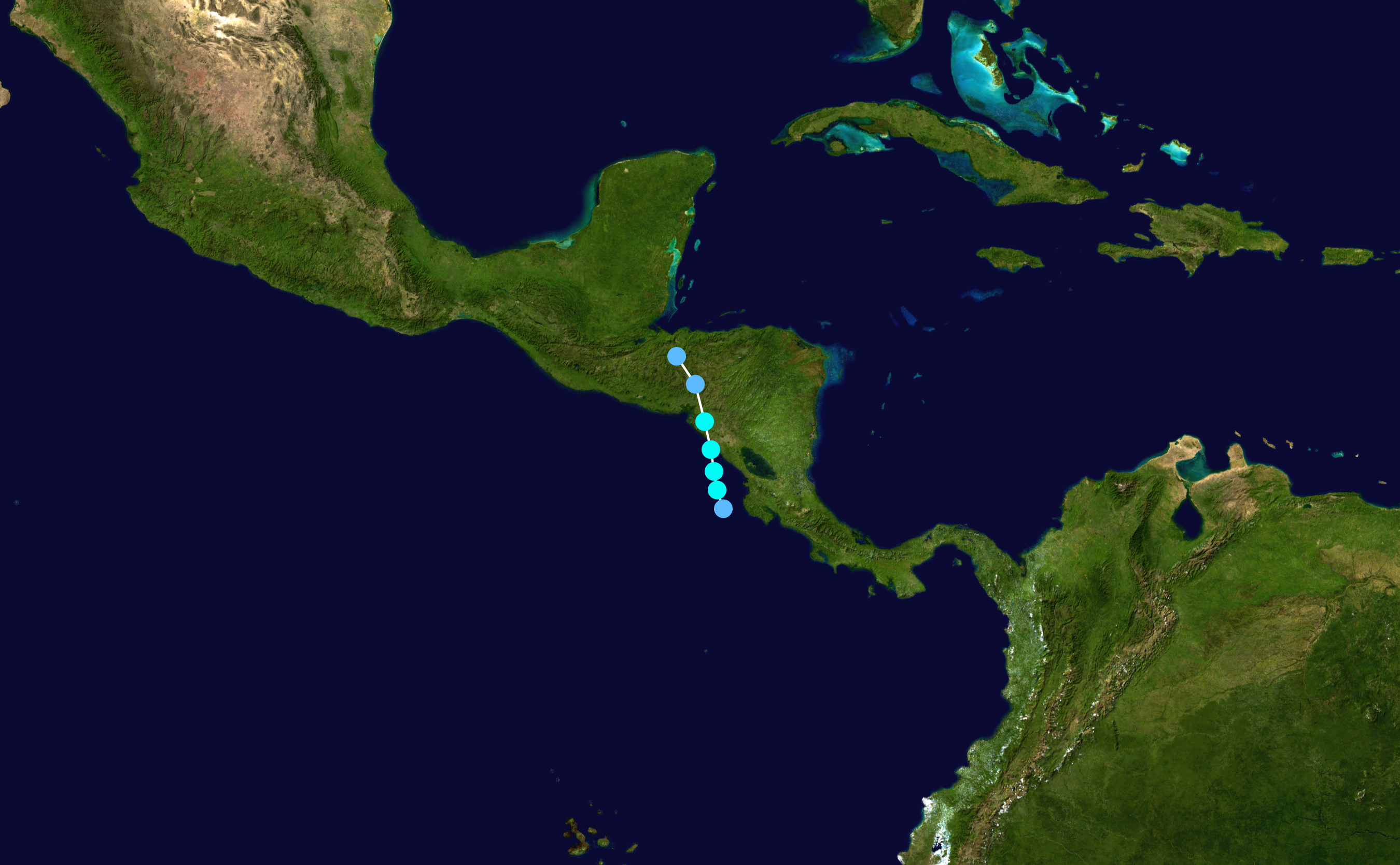 Track map of Tropical Storm Alma of the 2008 Pacific hurricane season. The points show the location of the storm at 6-hour intervals. The colour represents the storm's maximum sustained wind speeds as classified in the Saffir–Simpson scale (see below), and the shape of the data points represent the nature of the storm, according to the legend below. Saffir–Simpson scale Tropical depression≤38 mph≤62 km/h Category 3111–129 mph178–208 km/h Tropical storm39–73 mph63–118 km/h Category 4130–156 mph209–251 km/h Category 174–95 mph119–153 km/h Category 5≥157 mph≥252 km/h Category 296–110 mph154–177 km/h Unknown Storm type Tropical cyclone Subtropical cyclone Extratropical cyclone / Remnant low / Tropical disturbance / Monsoon depression